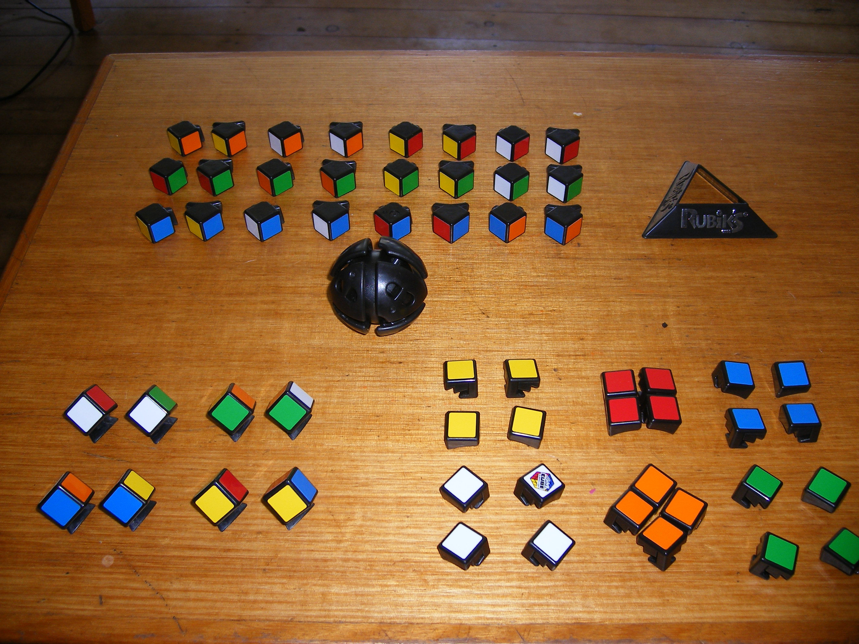 A 4x4x4 Rubik's Revenge disassembled to show the pieces.